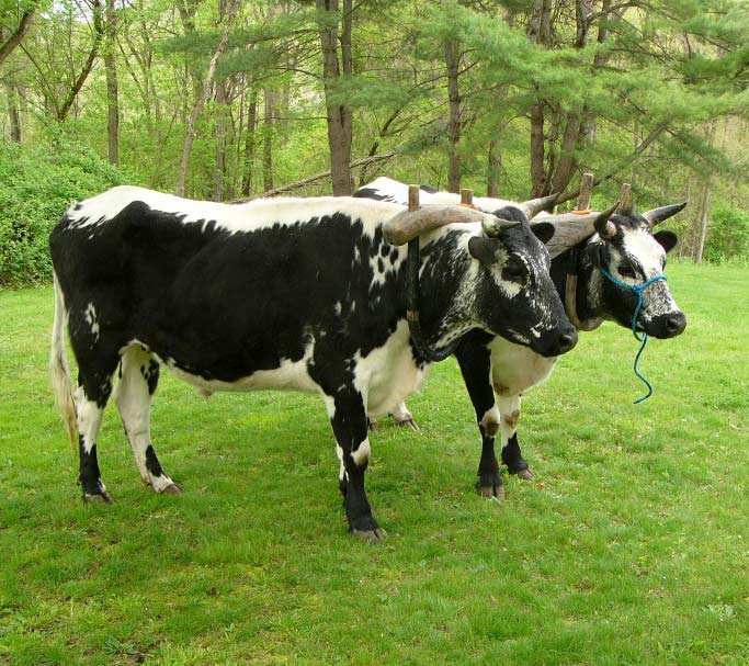 From personal collection of CTPhil.